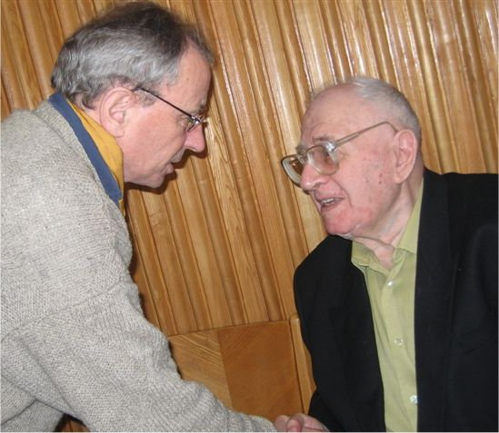 Andrzej Mencwel (b. 1940), Polish historian of literature and Aleksander Ziemny (1924-2009), Polish poet and translator.